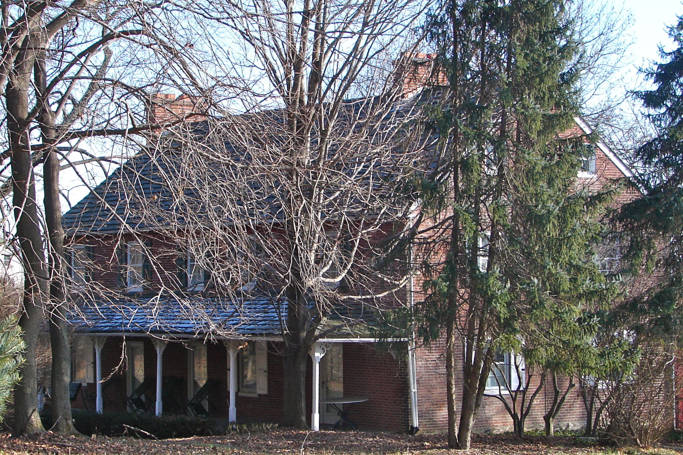 Thompson Farm on the NRHP since July 14, 1983. At 632 Chambers Rock Road near New London, London Britain Township, Chester County, Pennsylvania. Known as an old farmstead that has not been modernized, sorry for the lousy picture.